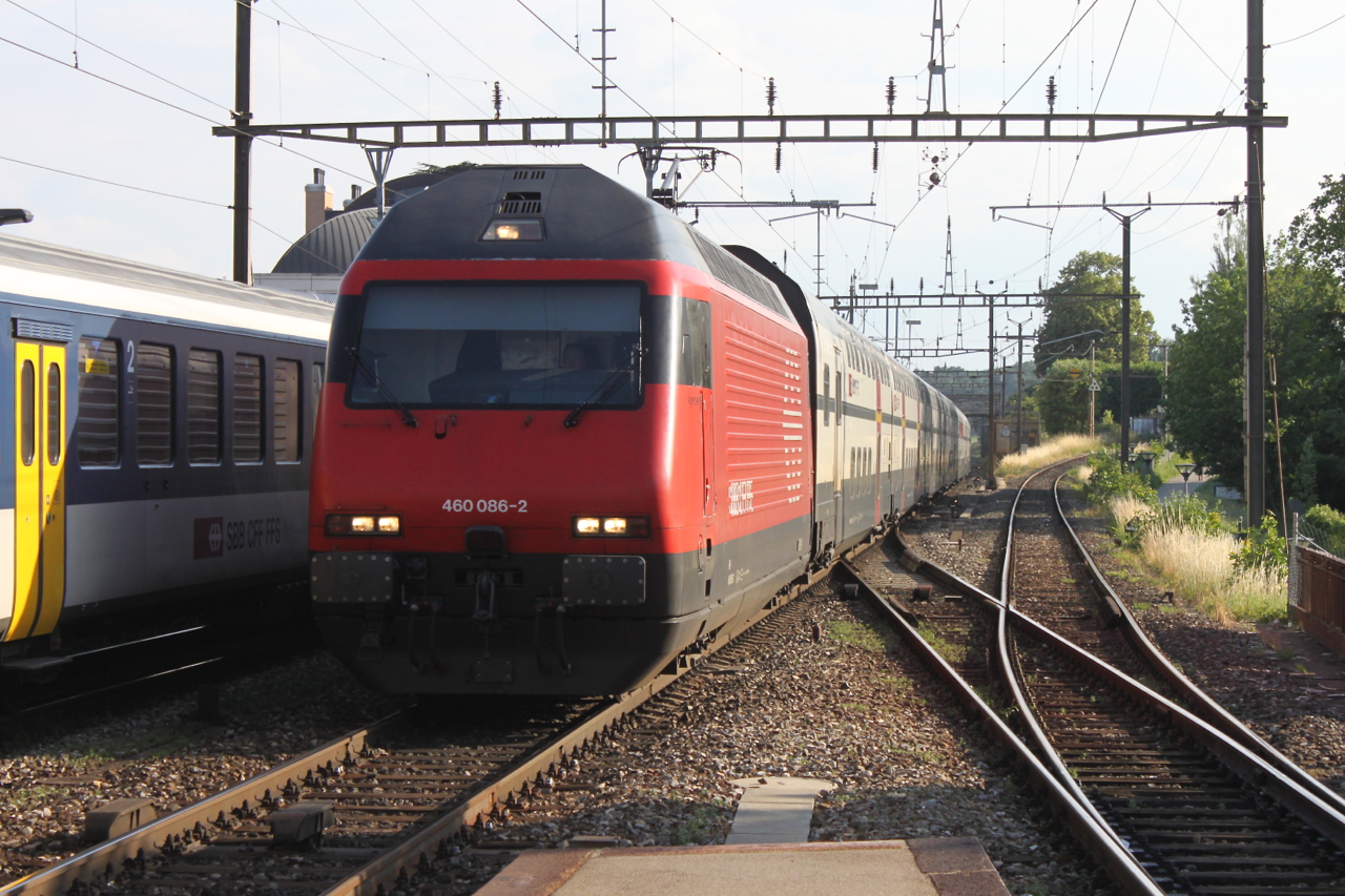 SBB CFF FFS Re 460 086-2 passing through Nyon train station ahead of an east-bound InterCity. On the right the former line to Crassier and Divonne.